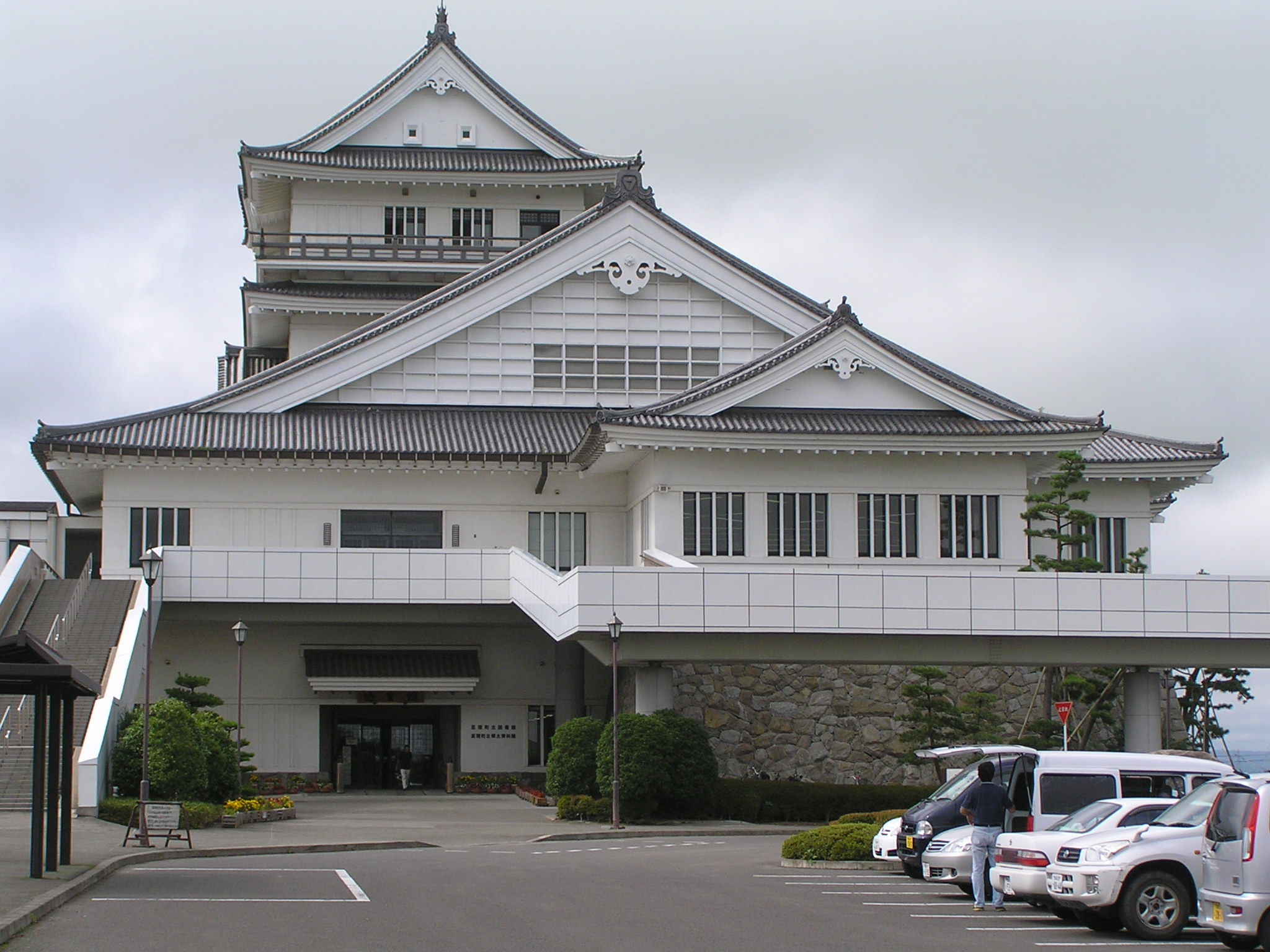 Watari Station (亘理駅) is a JR East railway station located in Watari, Miyagi Prefecture, Japan. 悠里館 撮影日 2006年8月16日 撮影場所 南側駐車場より 撮影者 投稿者と同じ（まるちゃん） 撮影者によるGFDLリリース Category:宮城県の画像